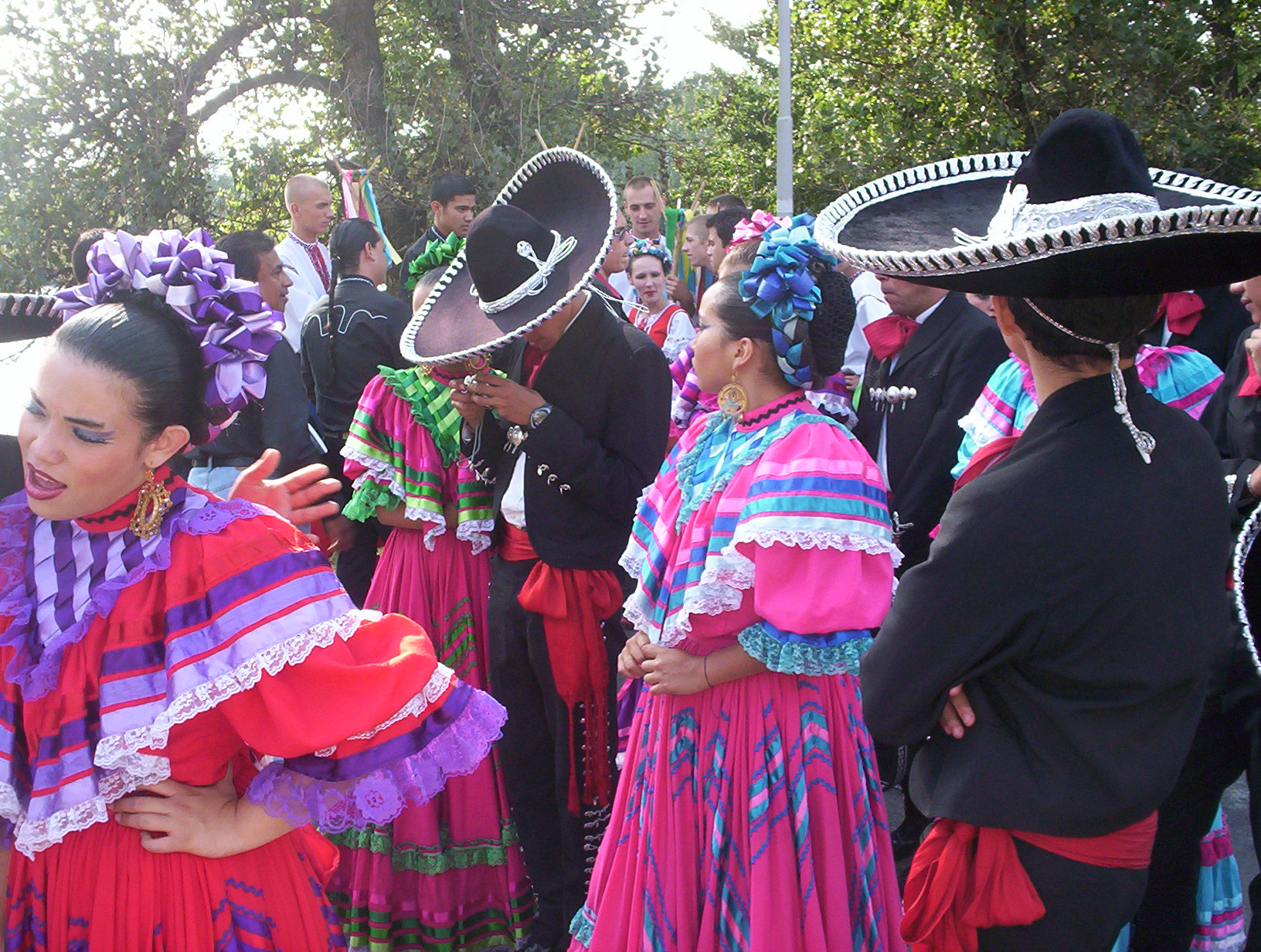 Mexican dancers at a festival in Poltava, Ukraine. 2005